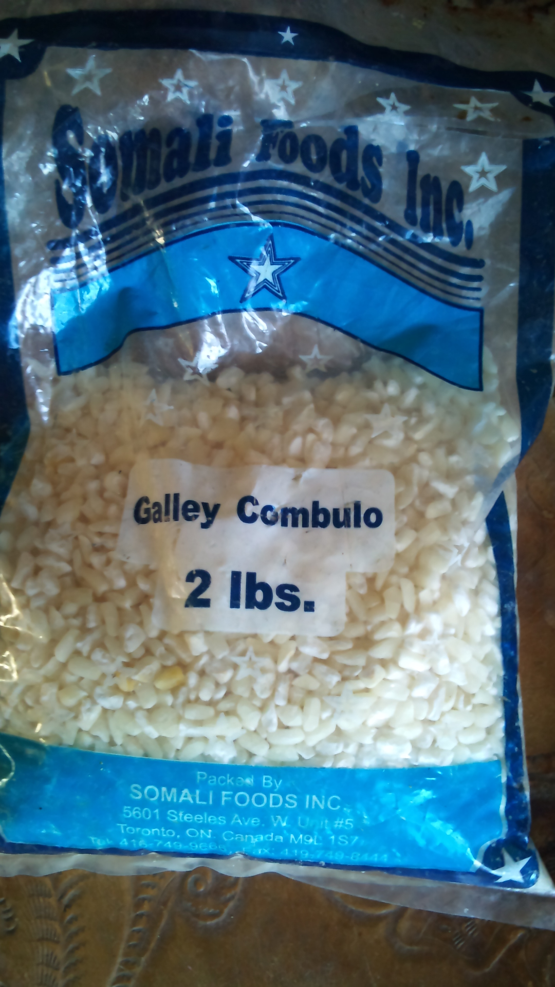 Bag of traditional Somali cambulo (azuki beans) manufactured by Somali Foods Inc.